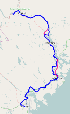 Overview of Ådalsbanan with line under construction in red.